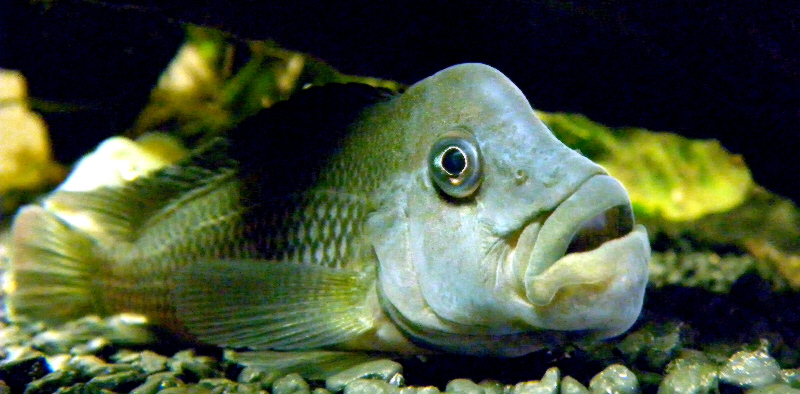 Steatocranus gibbiceps, male